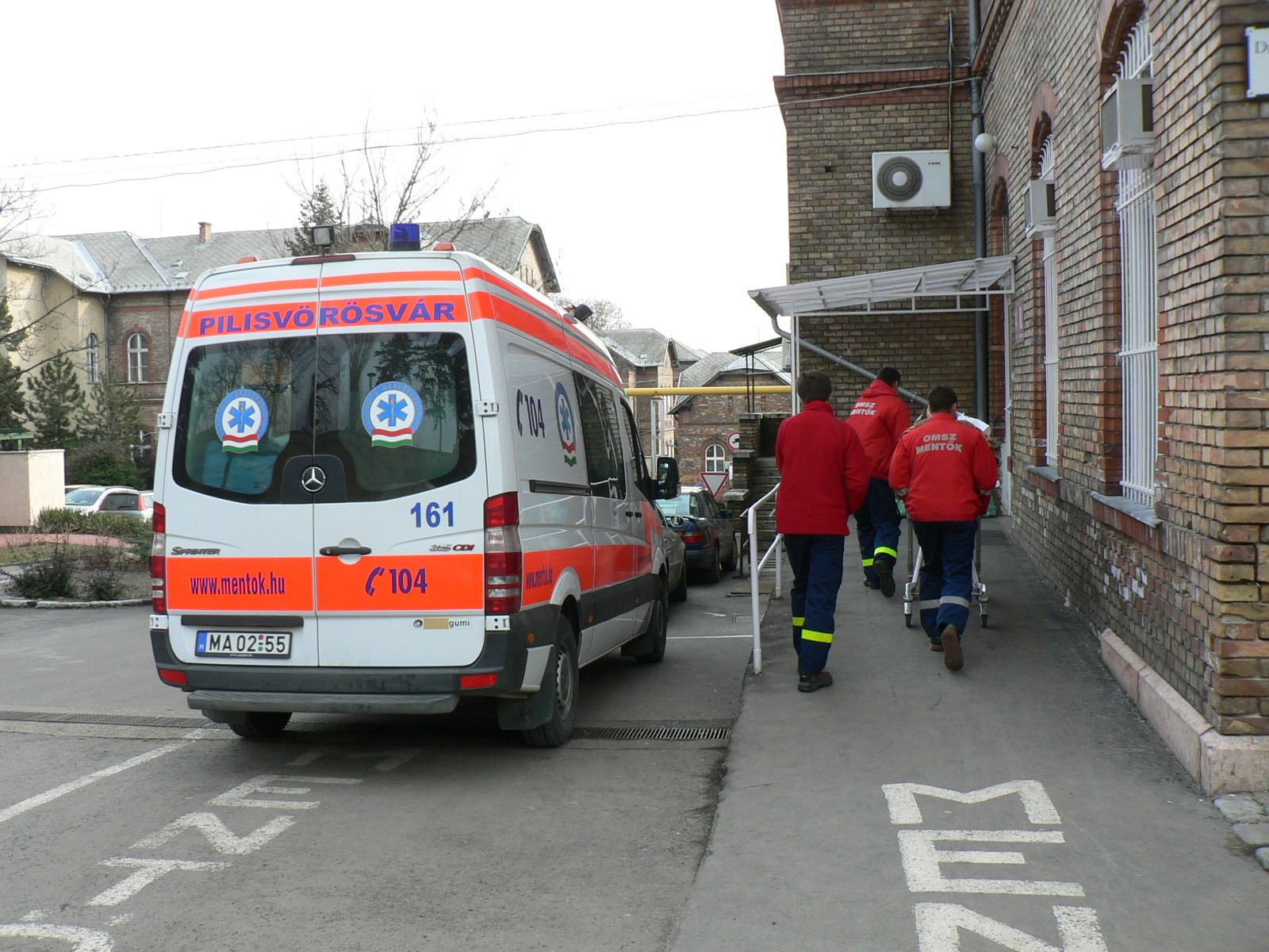 Beteggel érkezik a János Kórházhoz a pilisvörösvári mentőegység Mercedes Sprintere